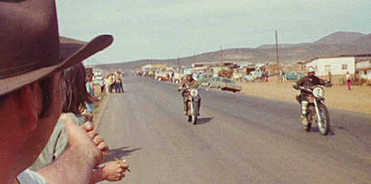 Rolf Tibblin and Mickey Quade roar through Camalu, B.C. during the 1972 Mexican 1000. Although they started one hour before the first cars in the race, at this point they were only about one minute ahead of the first Ford Bronco.